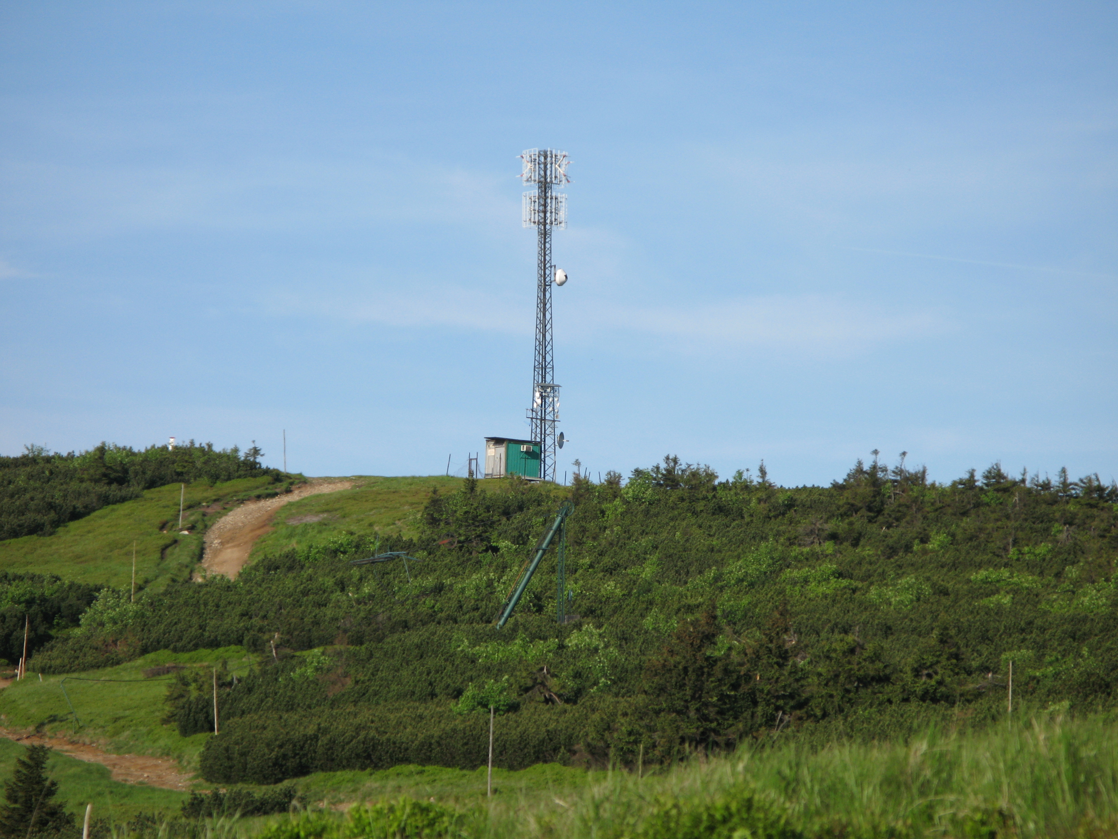 Velka luka in Mala Fatra